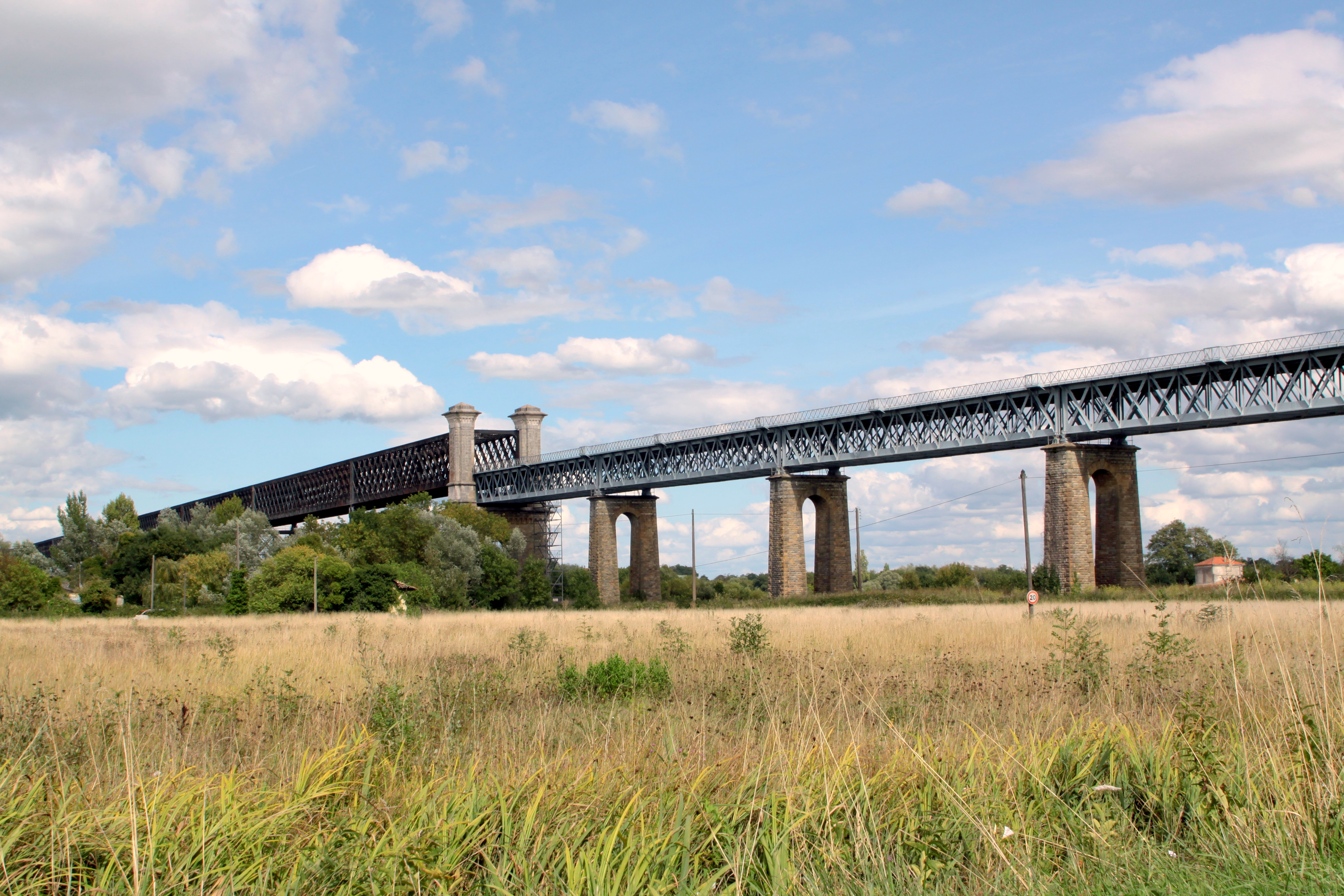 Railway bridge at Cubzac-les-Ponts